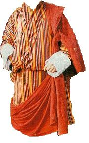 Gho is the traditional and national dress for men in Bhutan.